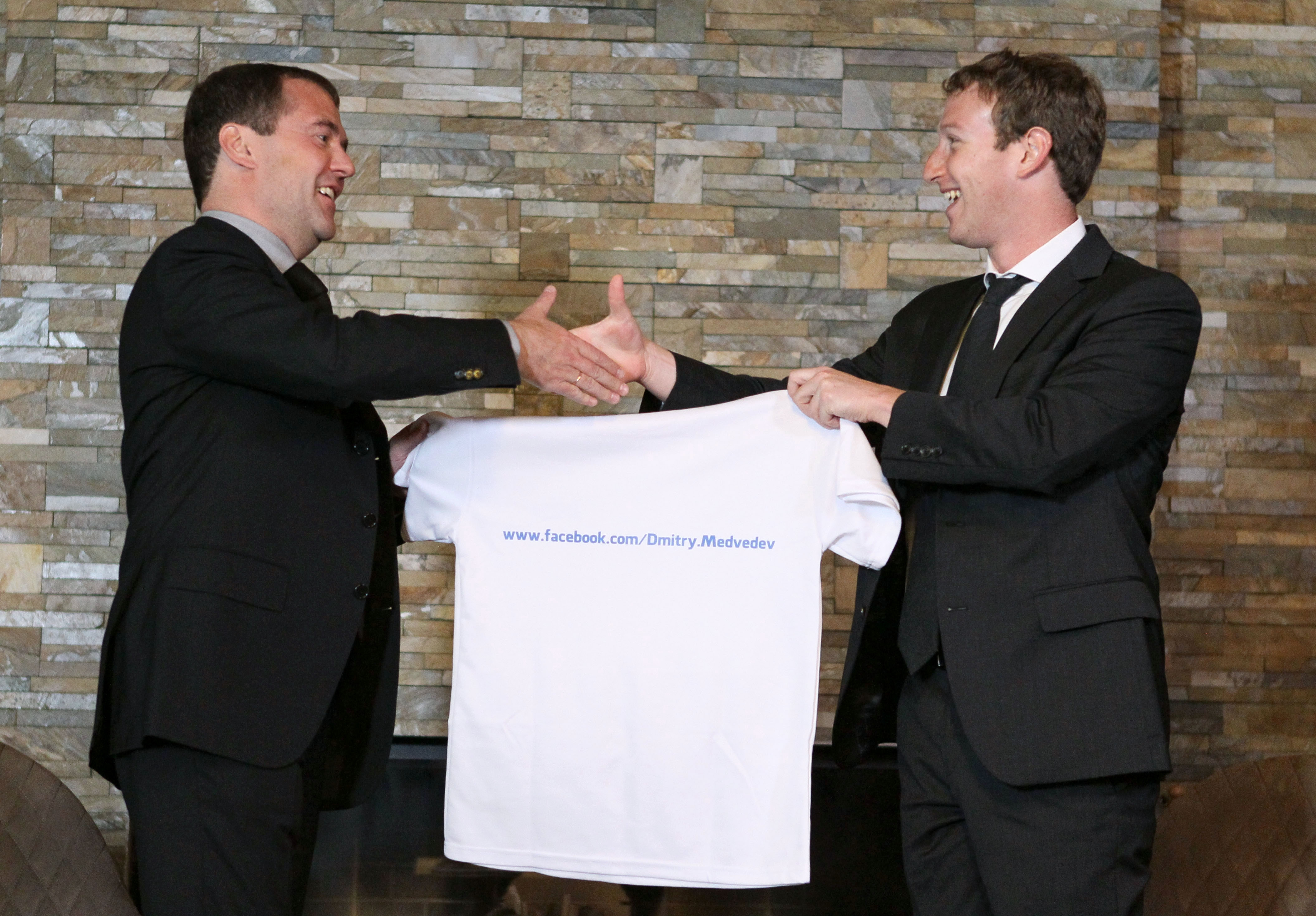 Mark Zuckerberg and Dmitry Medvedev 2012-10-01 at Gorky.